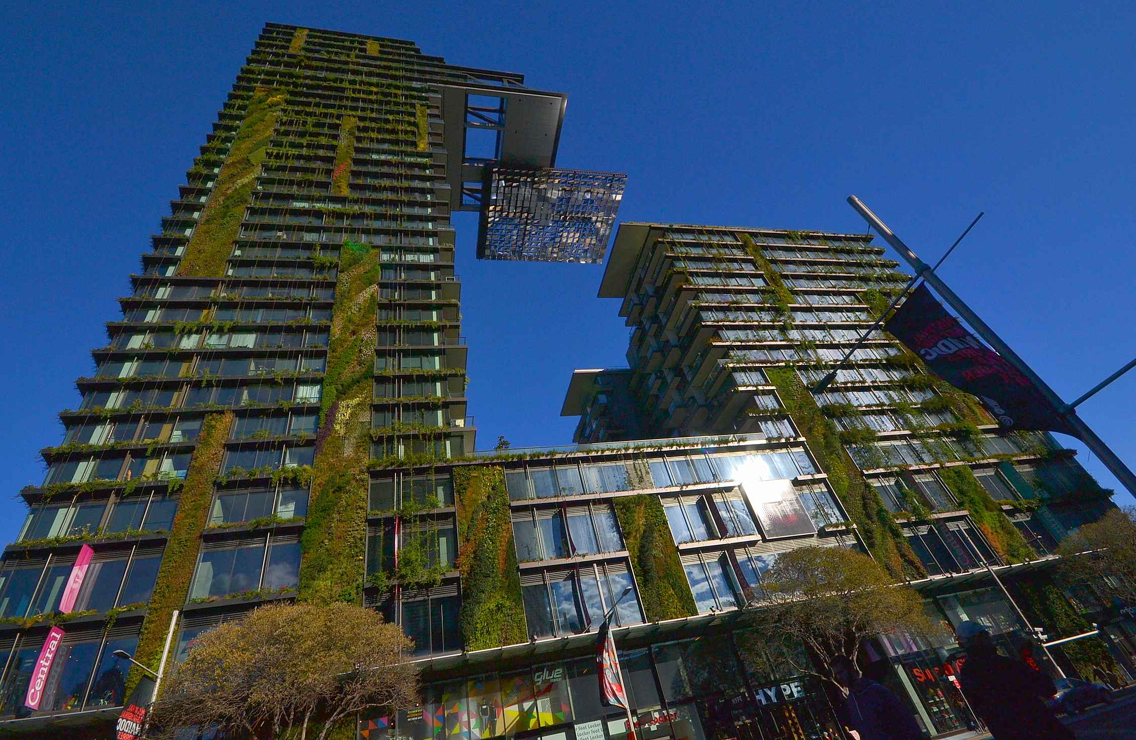 One Central Park, Broadway, Sydney